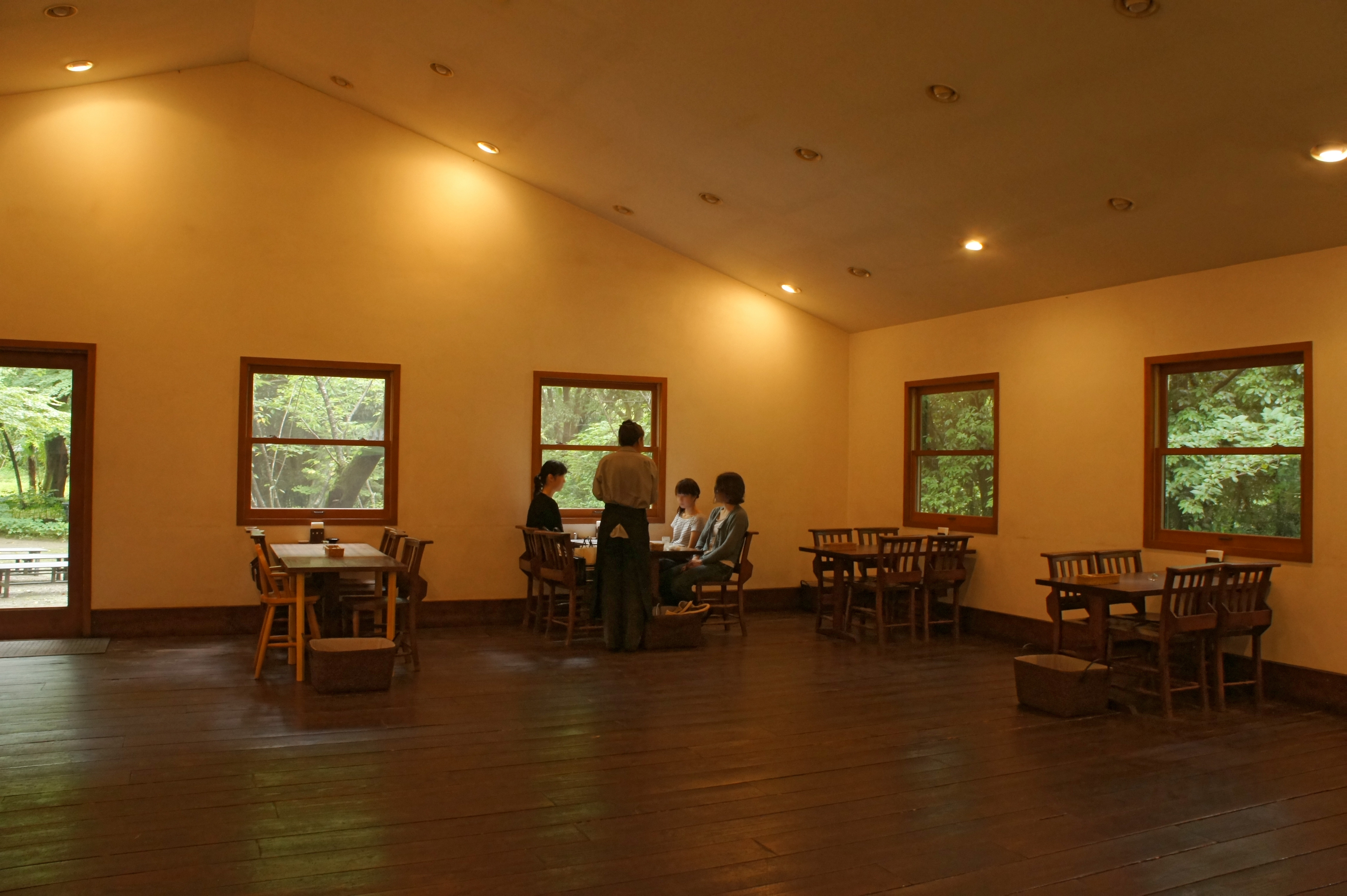 Restaurant Kitchen Snug in Takatsuki, Osaka prefecture, Japan.